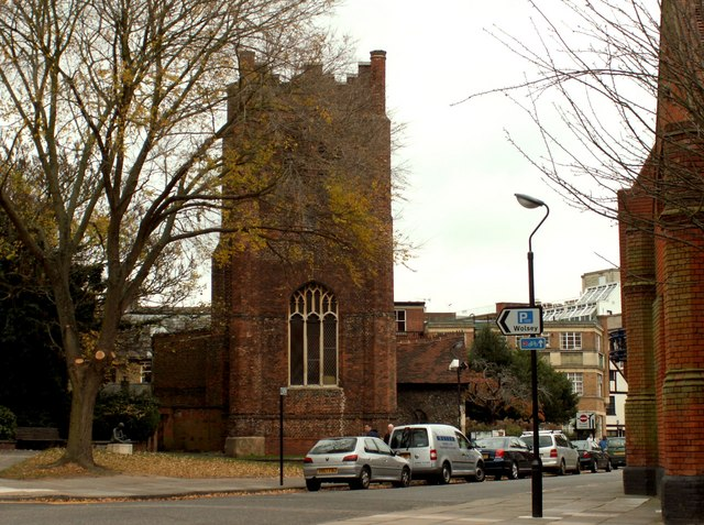 St. Mary at the Elms church This church dates back to the Norman period and has a fine Tudor brick tower. It stands in Elm Street.